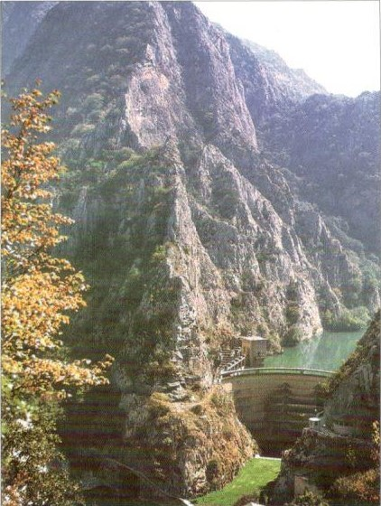 The dam of the hydroelectric power plant in Matka canyon, near Skopje, Macedonia